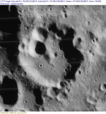 Kinau lunar crater - Lunar Orbiter IV image LO-IV-094H